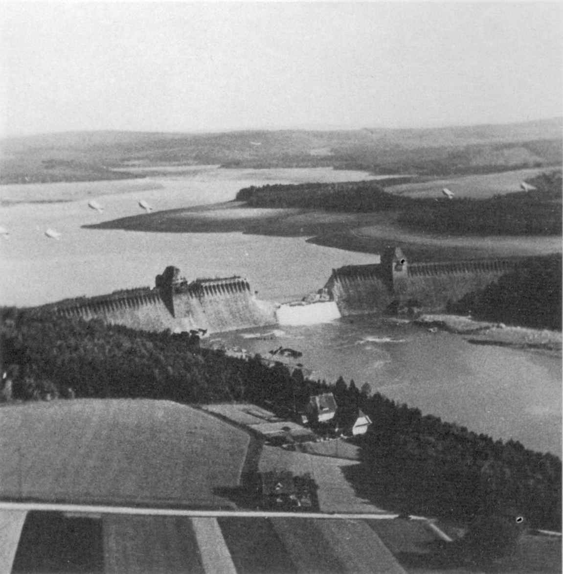 Photograph of the breached Möhne Dam taken by Flying Officer Jerry Fray of No. 542 Squadron from his Spitfire PR IX, six Barrage balloons are above the dam